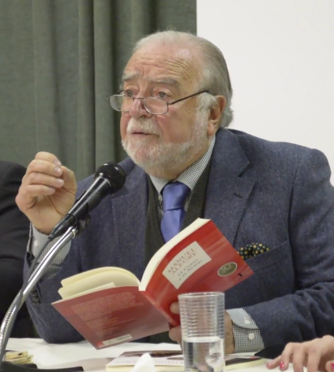 Manuel Alegre in Colégio Infante Santo, in Santarém, in 2017.